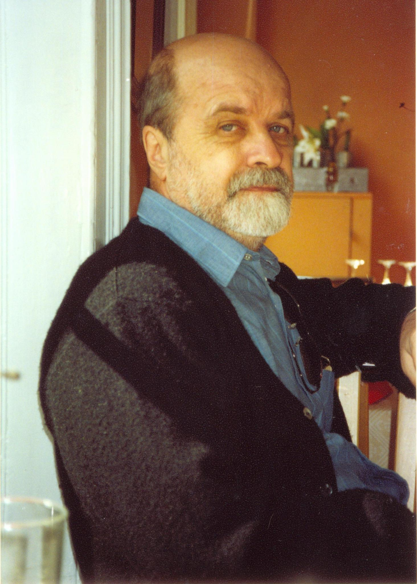 A photograph by Elizaveta Smirnova. Used with permission.